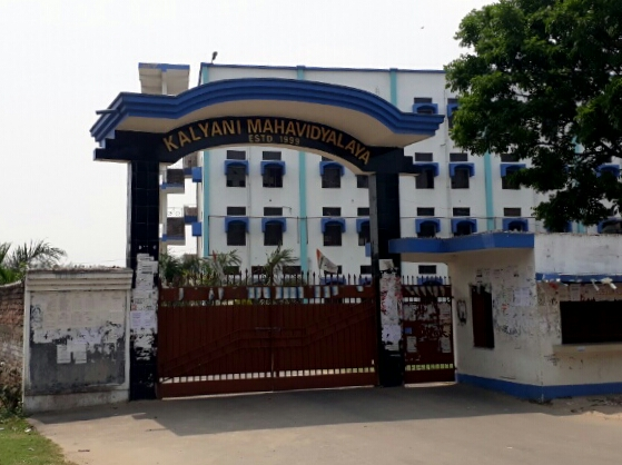 Kalyani Mahavidyalaya, Nadia